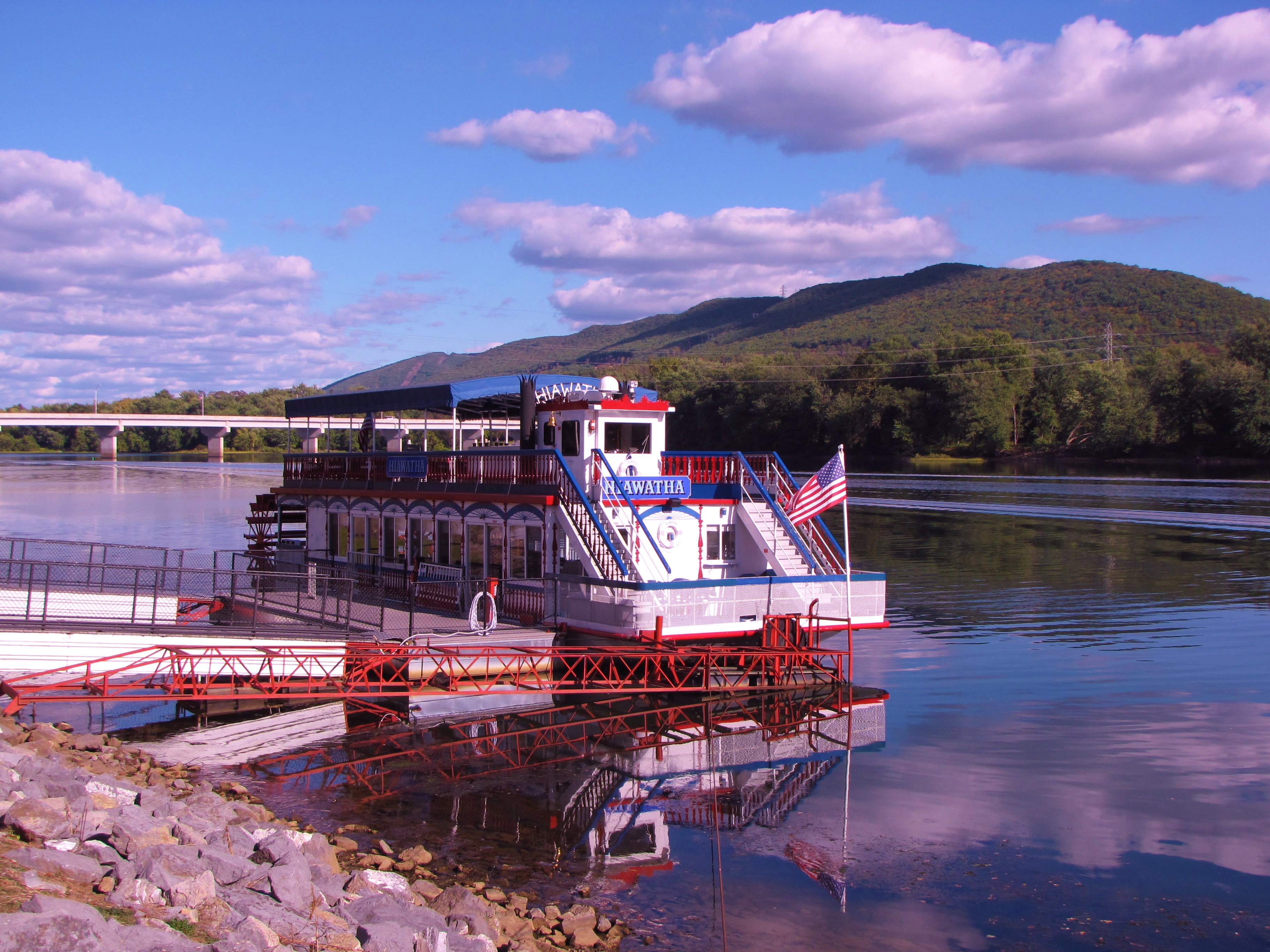 The Hiawatha is a river cruising boat that docks at Susquehanna State Park in Williamsport, Pennsylvania. The cruises usually run from the park up to the railroad bridge at Nisbet.